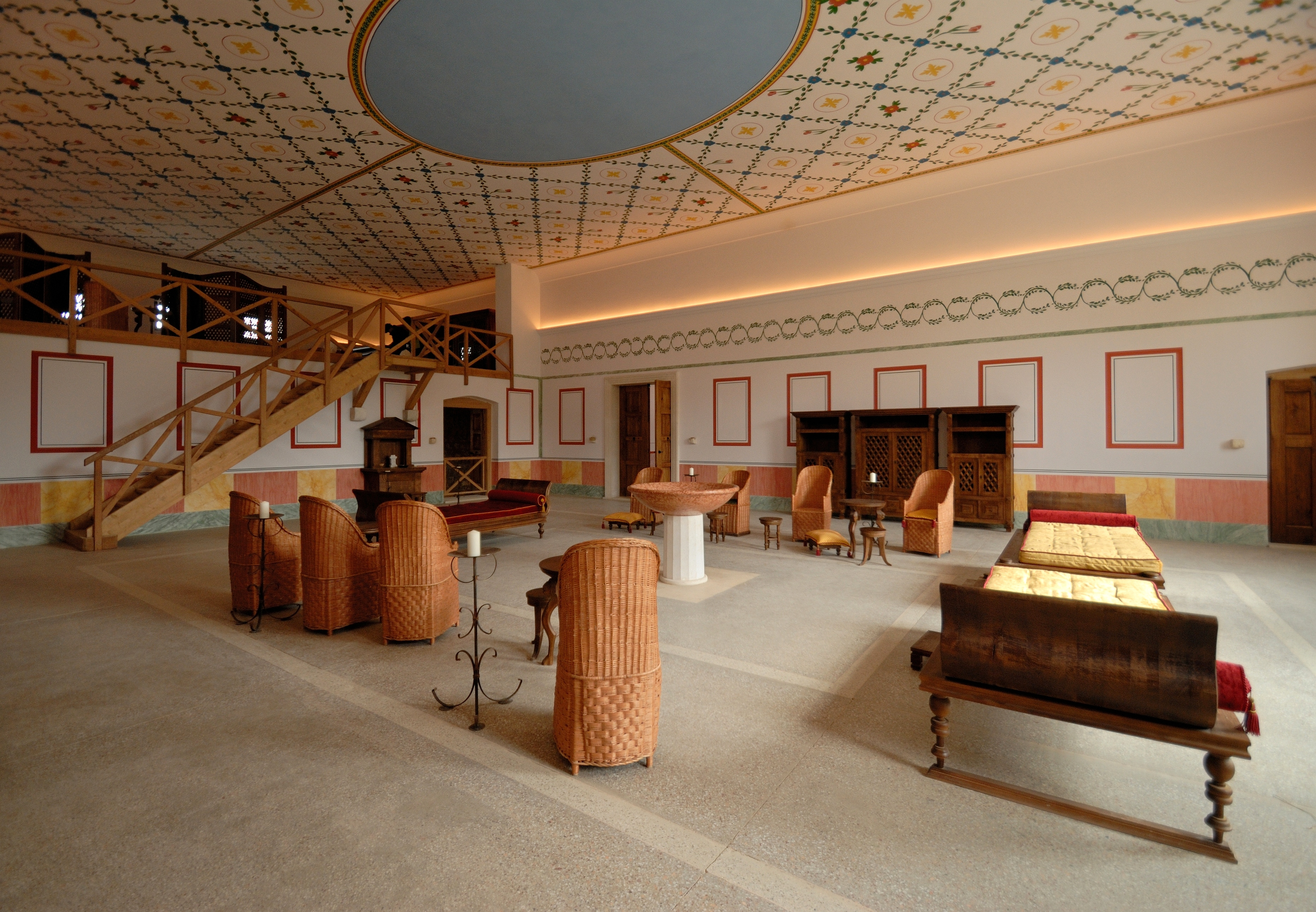 Reconstructin of an ancient roman house at archeological site Carnuntum, Lower Austria